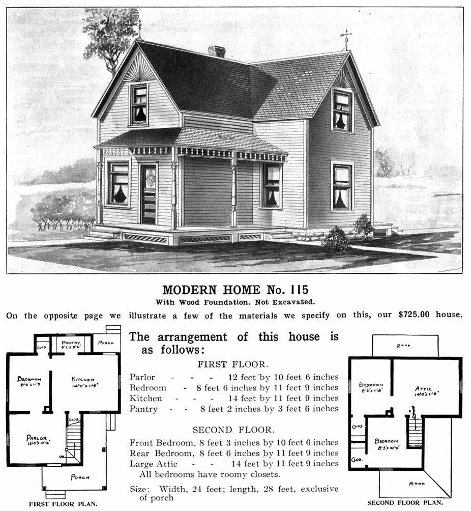 Sears Catalog Homes, model 115, 1908-1914.